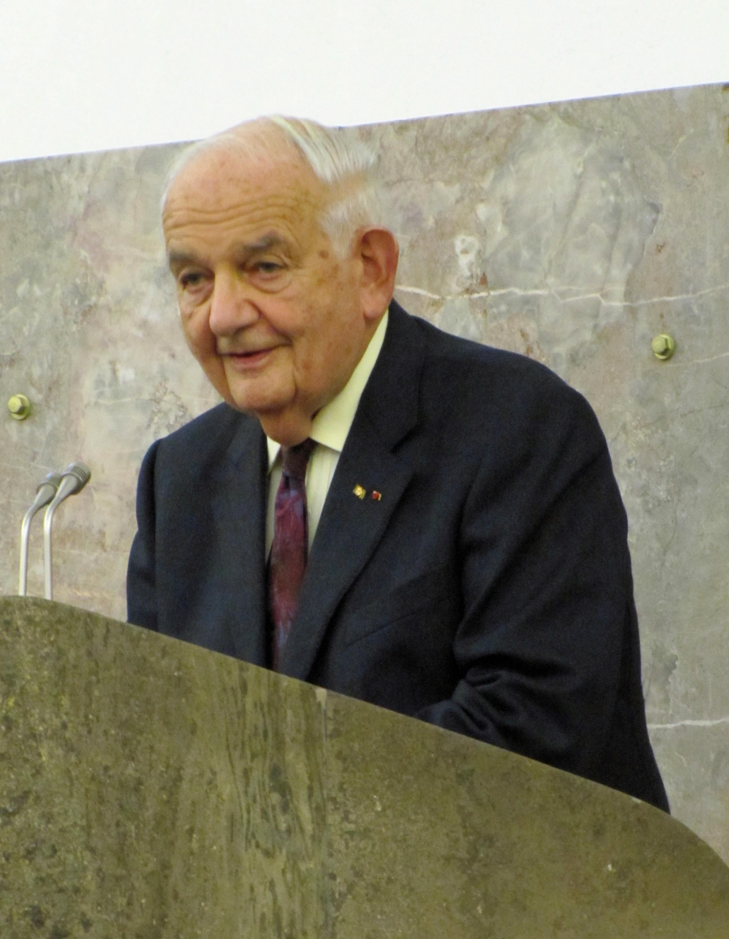 Alfred Grosser, German-French publicist, sociologist and political scientist, 2010 at "Paulskirche" in Frankfurt am Main, Germany.